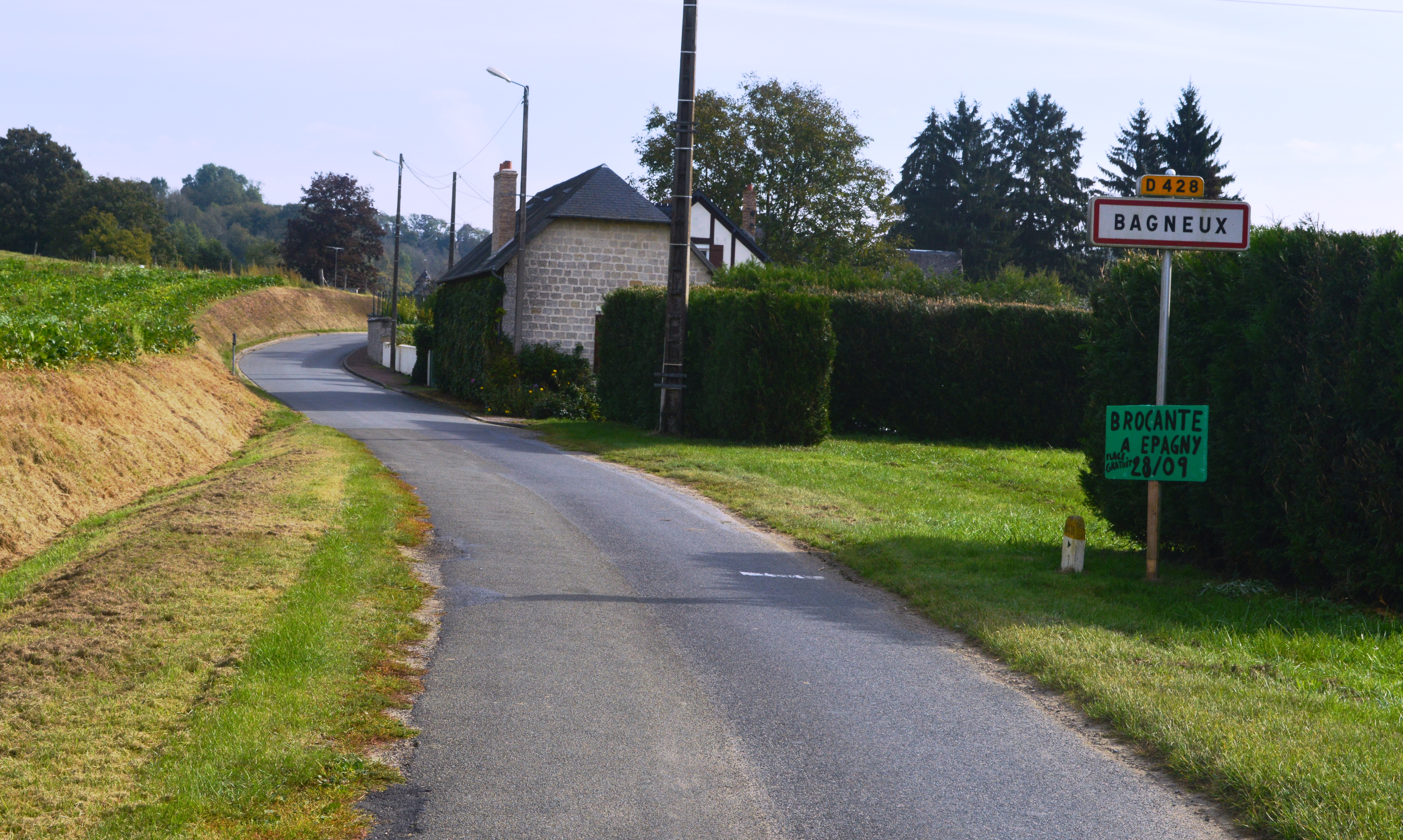 The entry to Bagneux